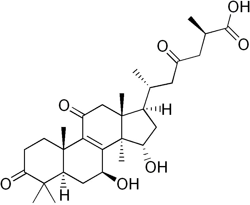 Chemical structure of ganoderic acid A